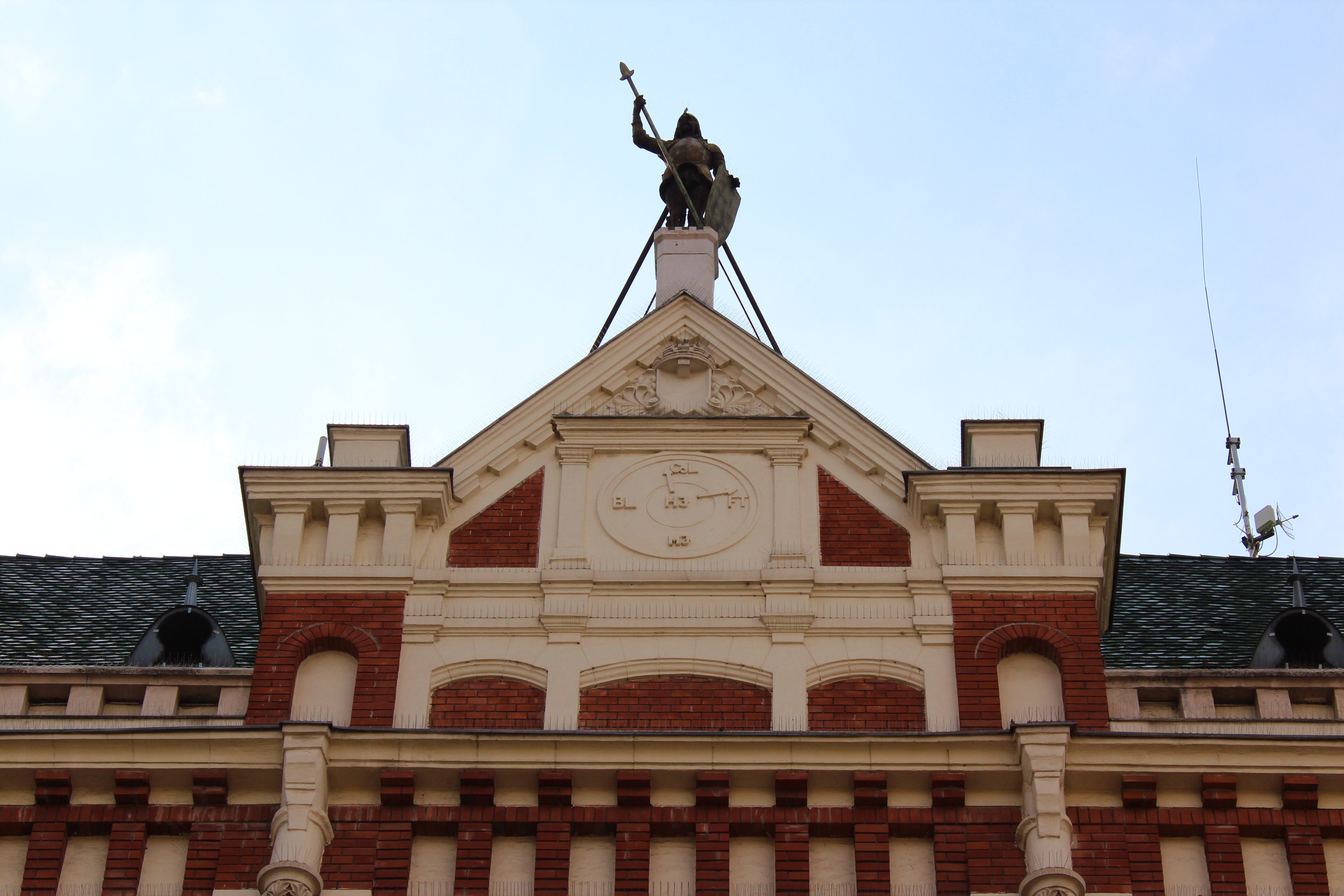 Újpest Town Hall